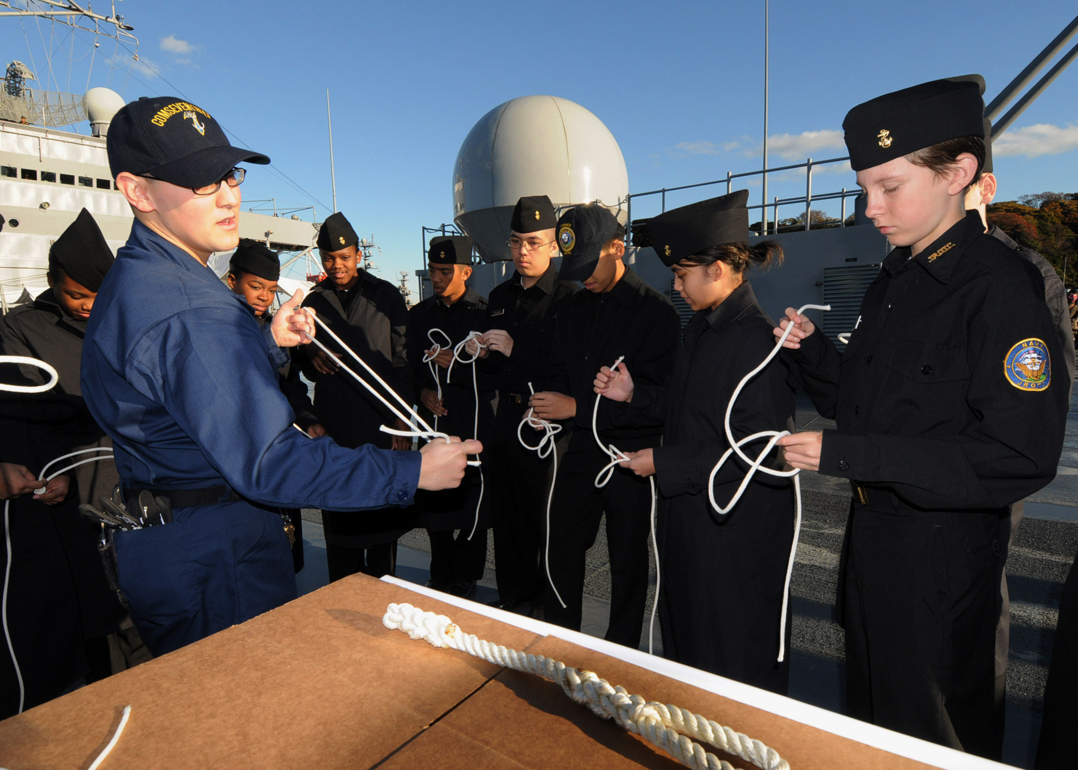 PACIFIC OCEAN (Dec. 6, 2008) Junior Reserve Officer Training Corps cadets from Nile C. Kinnick High School in Yokosuka, Japan, learn basic seamanship skills aboard the amphibious command ship USS Blue Ridge (LCC 19) during a Family and Friendship Day Cruise to earn their sea cruise ribbon. (U.S. Navy photo by Mass Communication Specialist 2nd Class Josh Cassatt/Released)